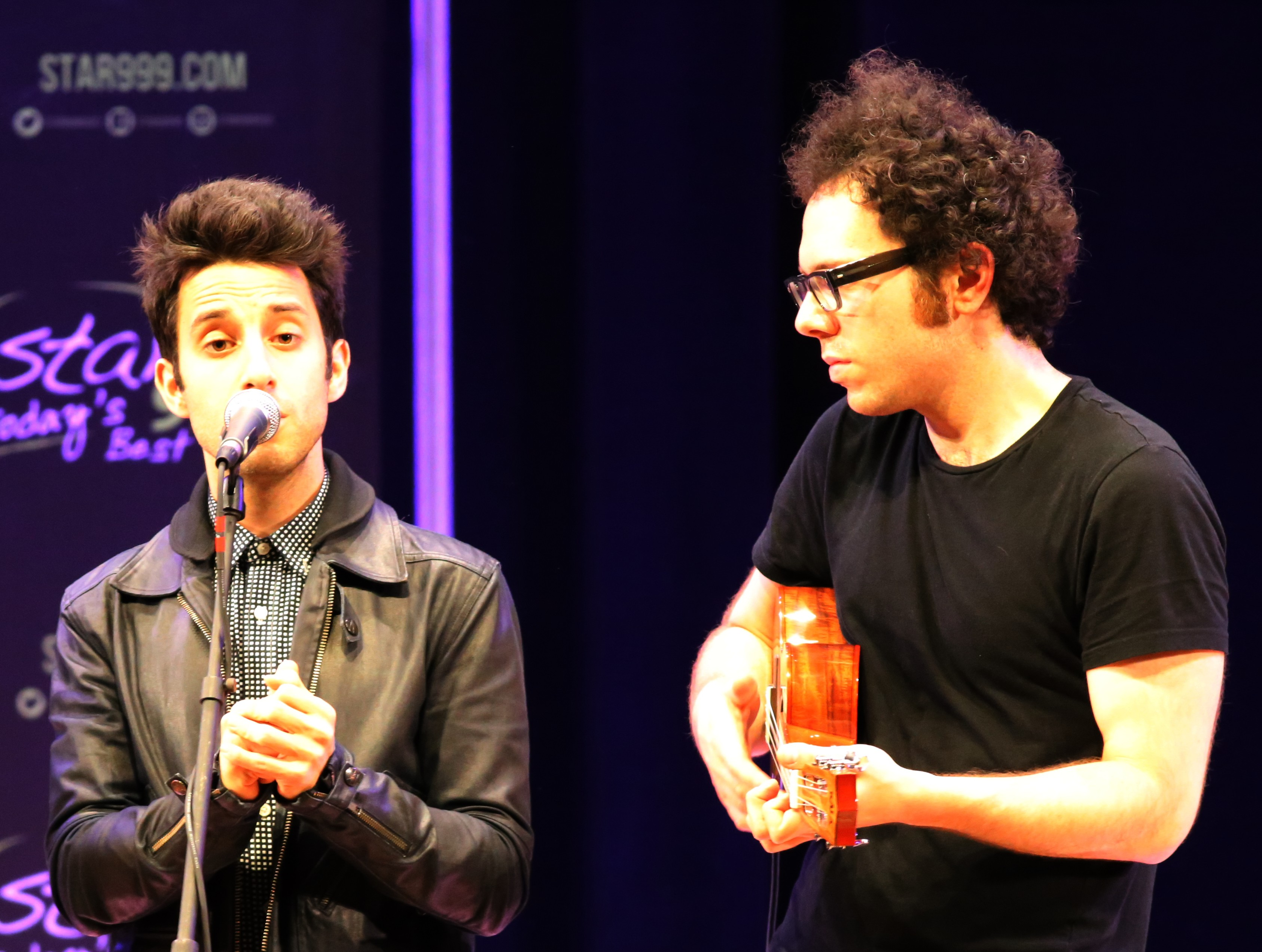 A Great Big World performing live in 2013 at Jonathan Law High School in Milford, CT